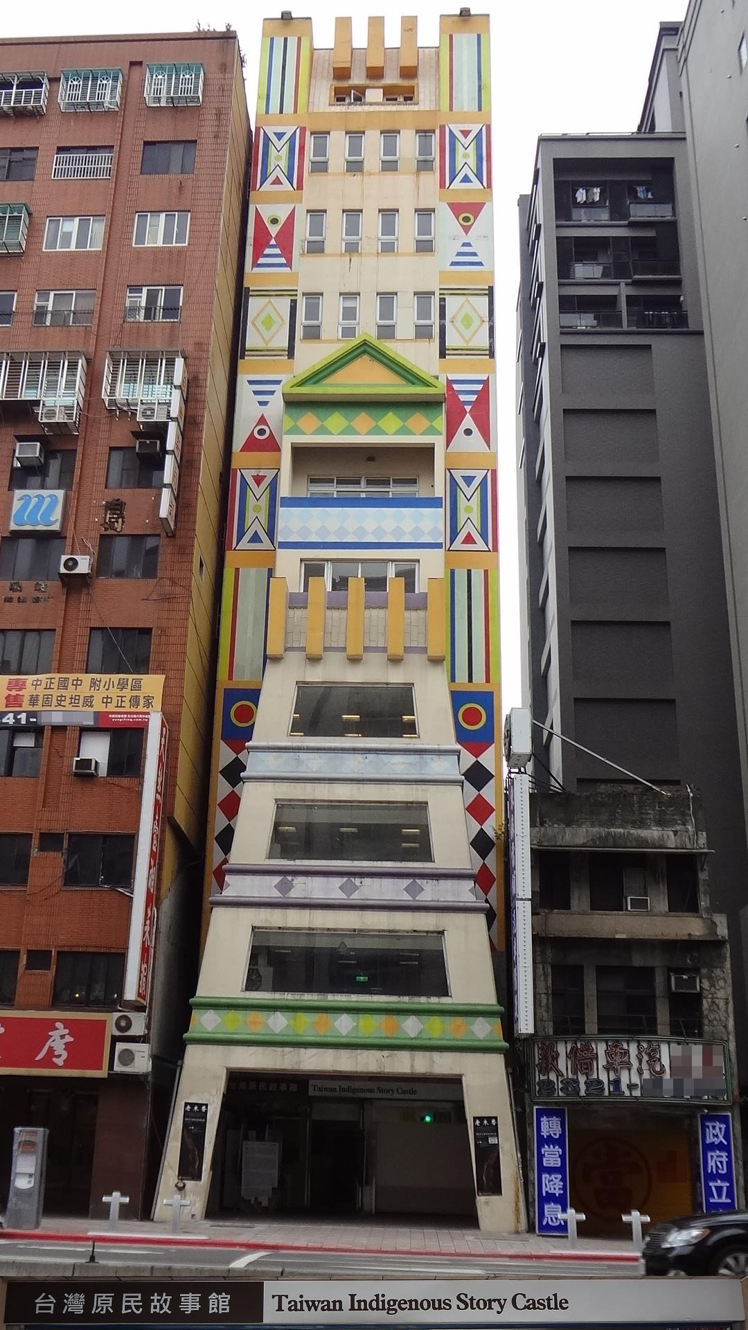 Taiwan Indigenous Story Castle